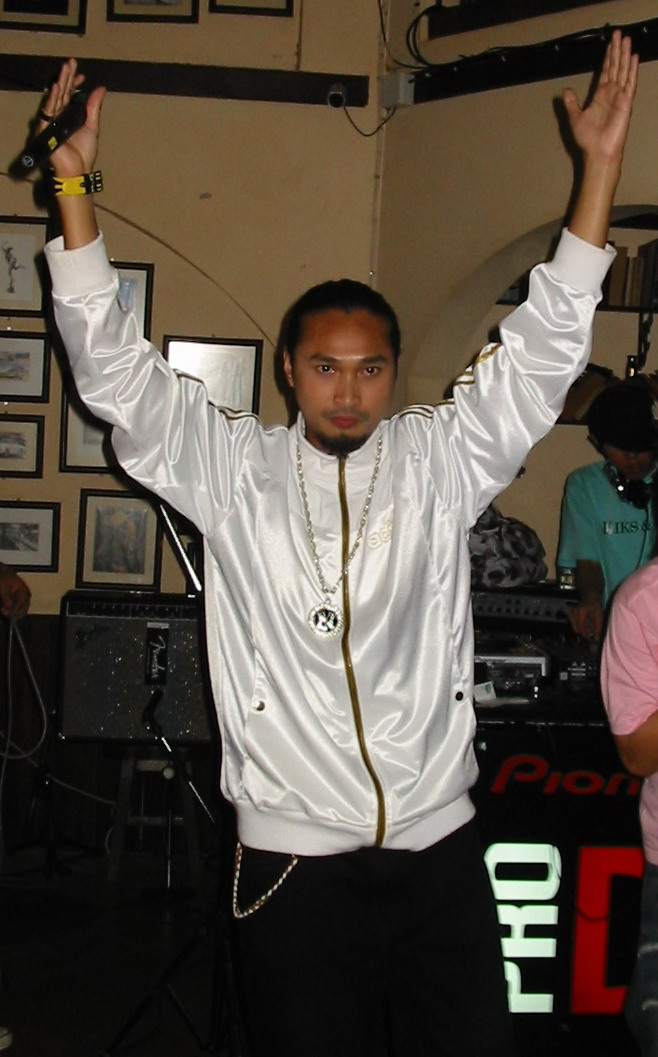 Da Jim at the press conf. of NYU Club the 8th anniversary album launch